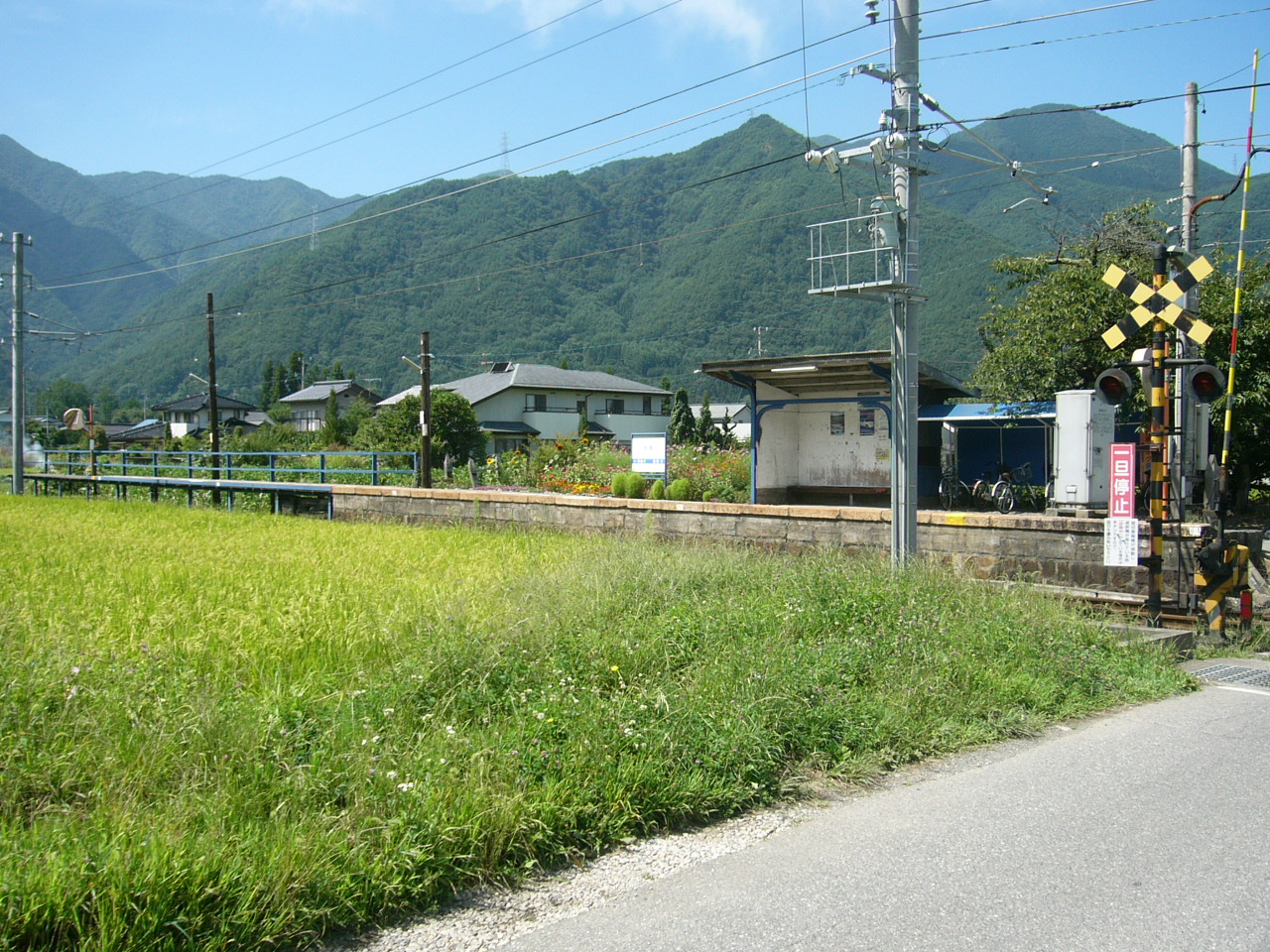 Endo Station